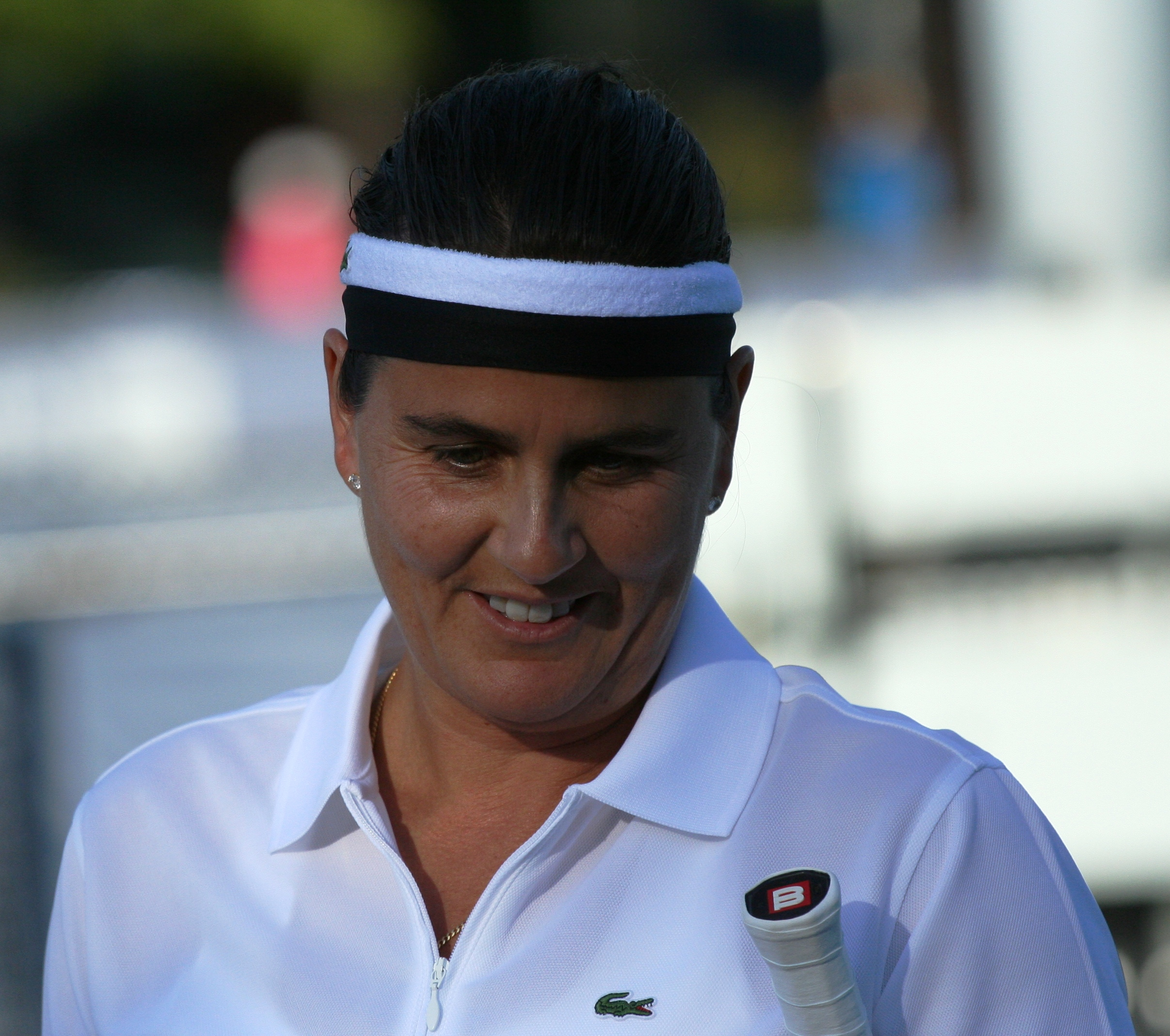 U.S. Open Champions Team Tennis, Wednesday, Sept. 8, 2010